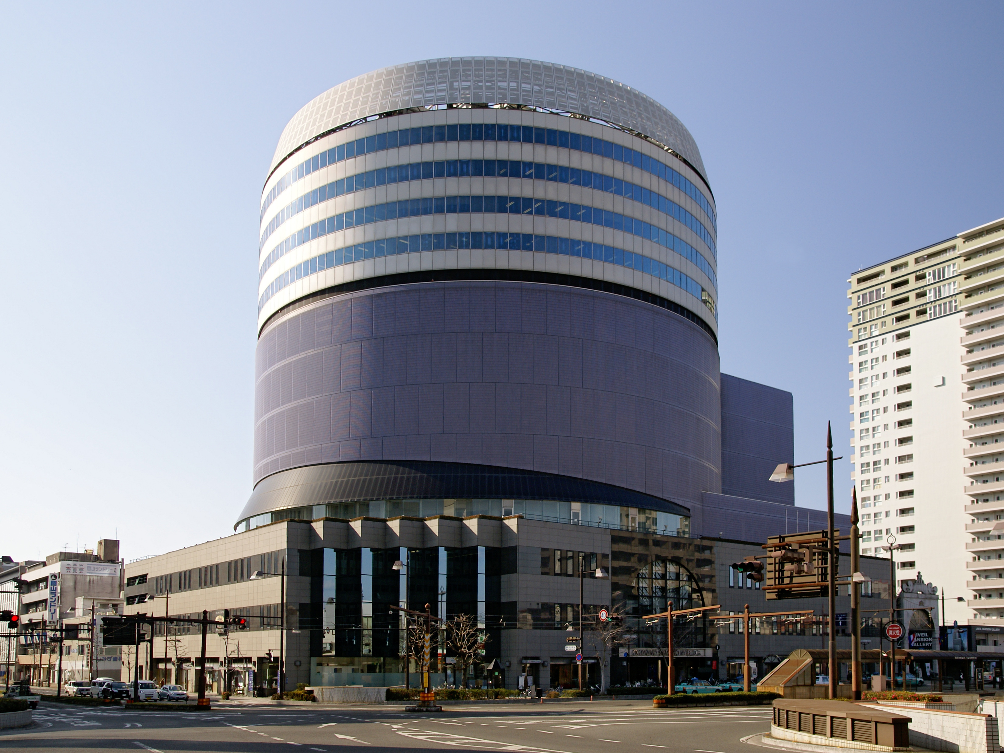 Okayama Symphony Hall in Okayama, Okayama prefecture, Japan